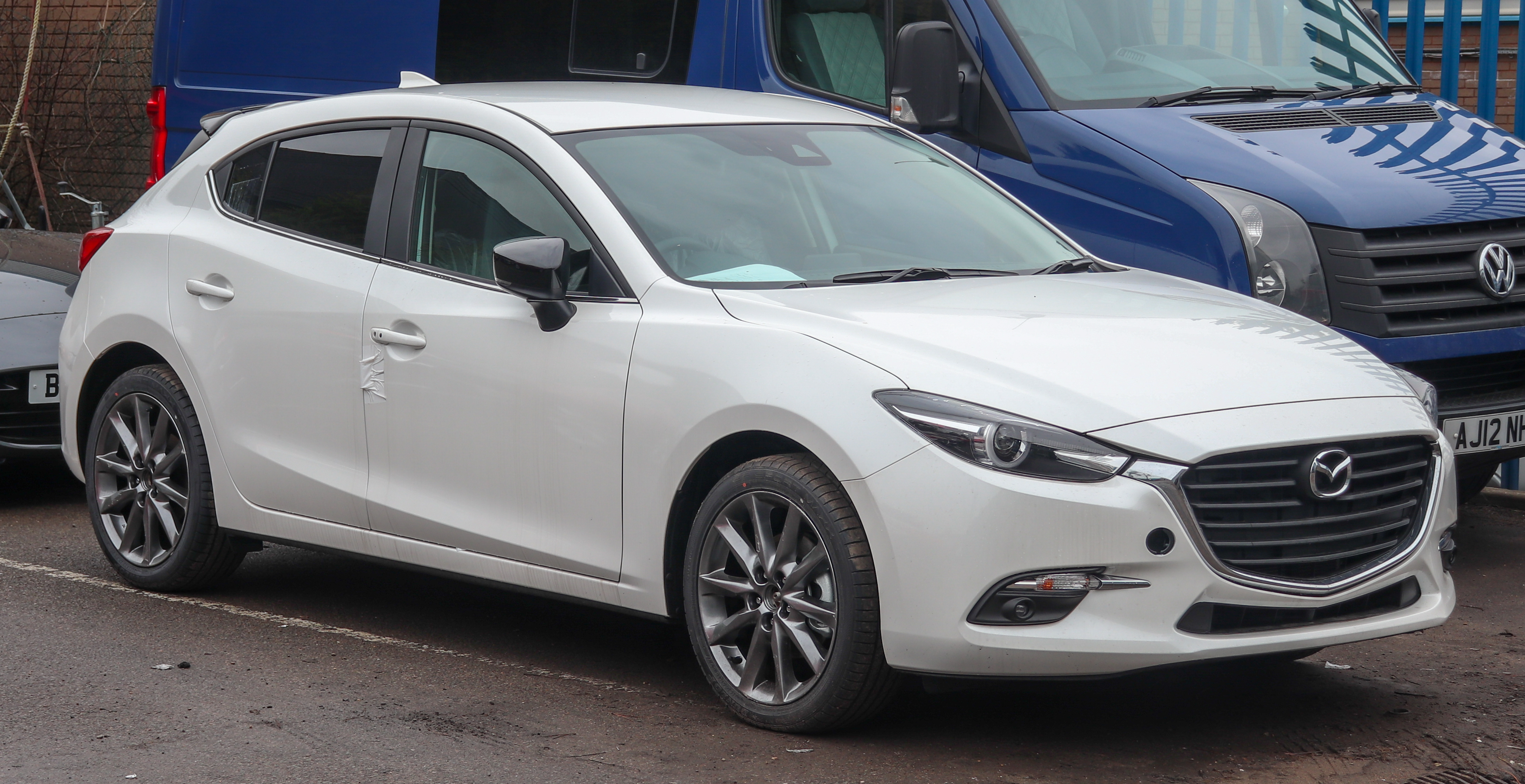 2019 Mazda3 Sport NAV Taken in Leamington Spa